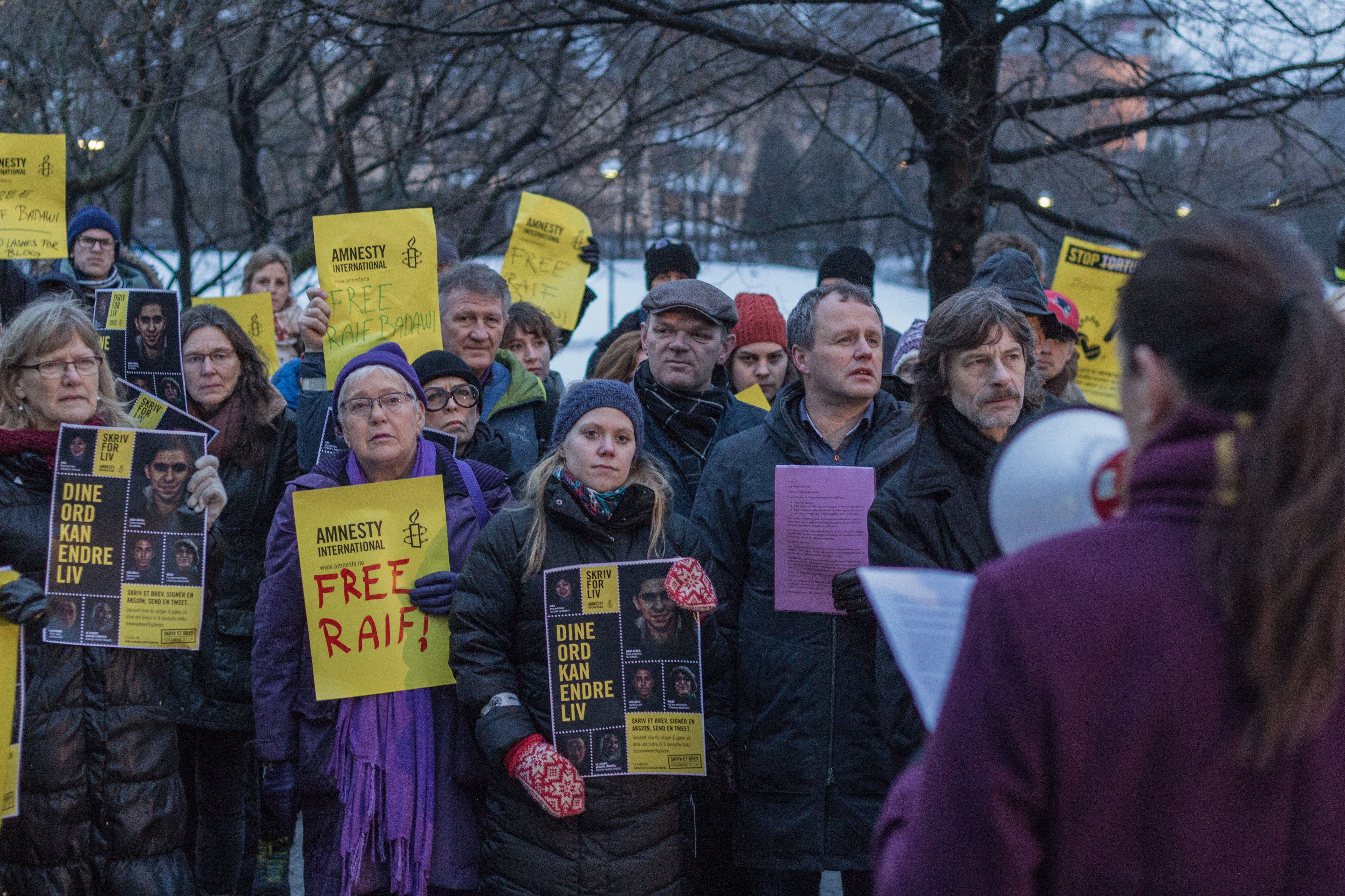 A group of people including members of Amnesty International and the Norwegian Humanist Associationn demonstrate against the flogging of Raif Badawi outside the Royal Embassy of Saudi Arabia in Oslo, Norway.